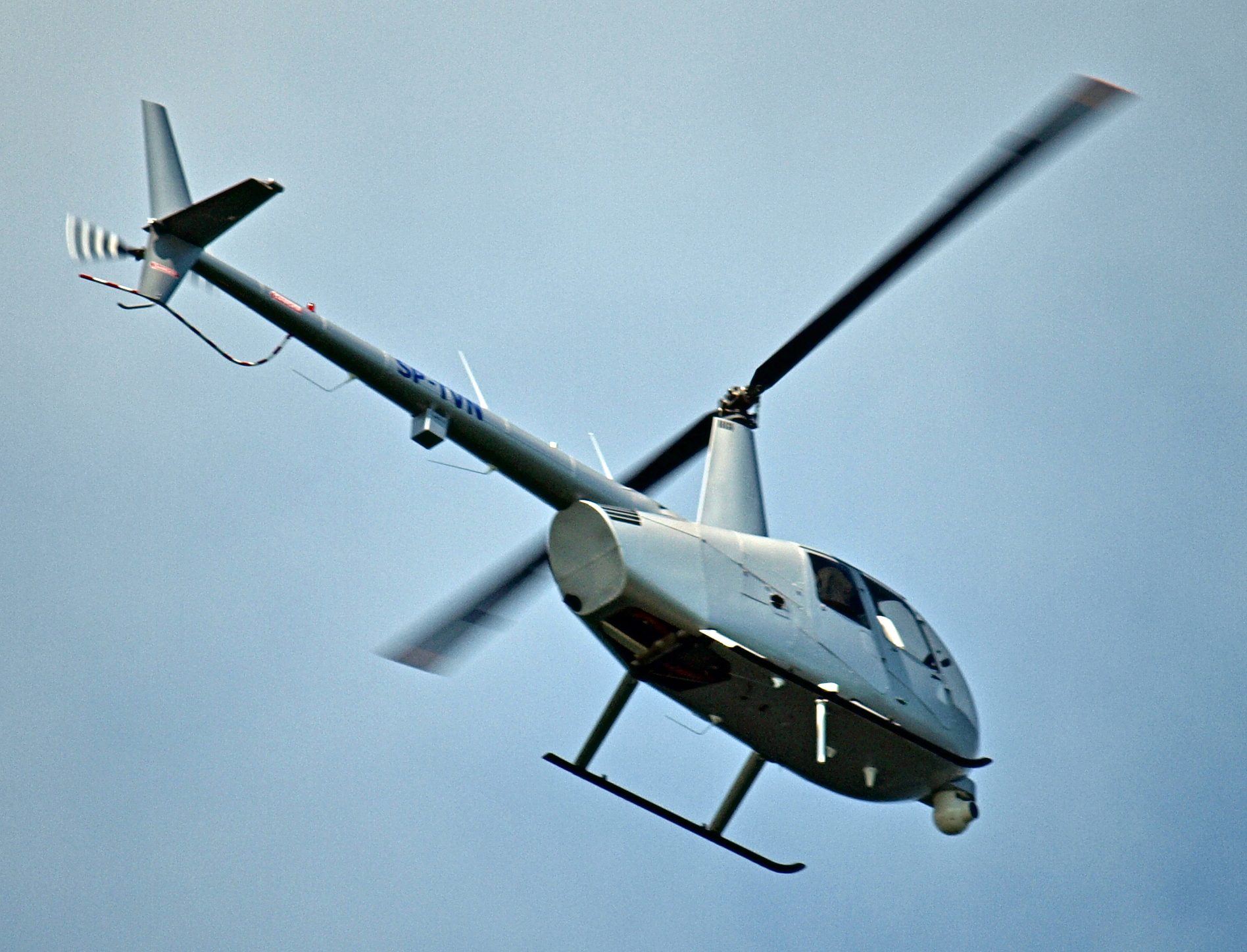 SP-TVN helicopter filming the final parade of Tall Ships' Races, Gdynia, 2009